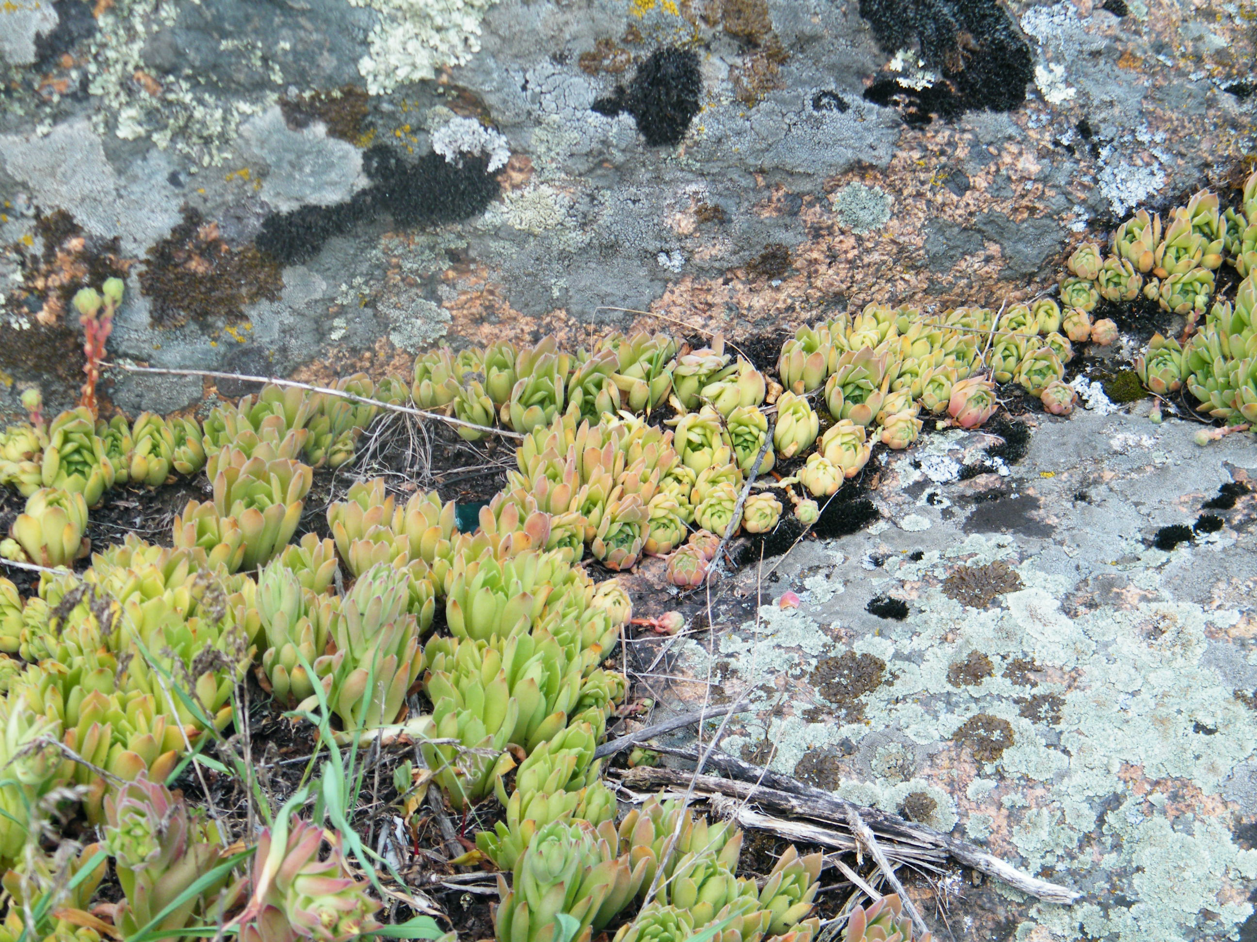 Sempervivum ruthenicum in Buzkiy Gard